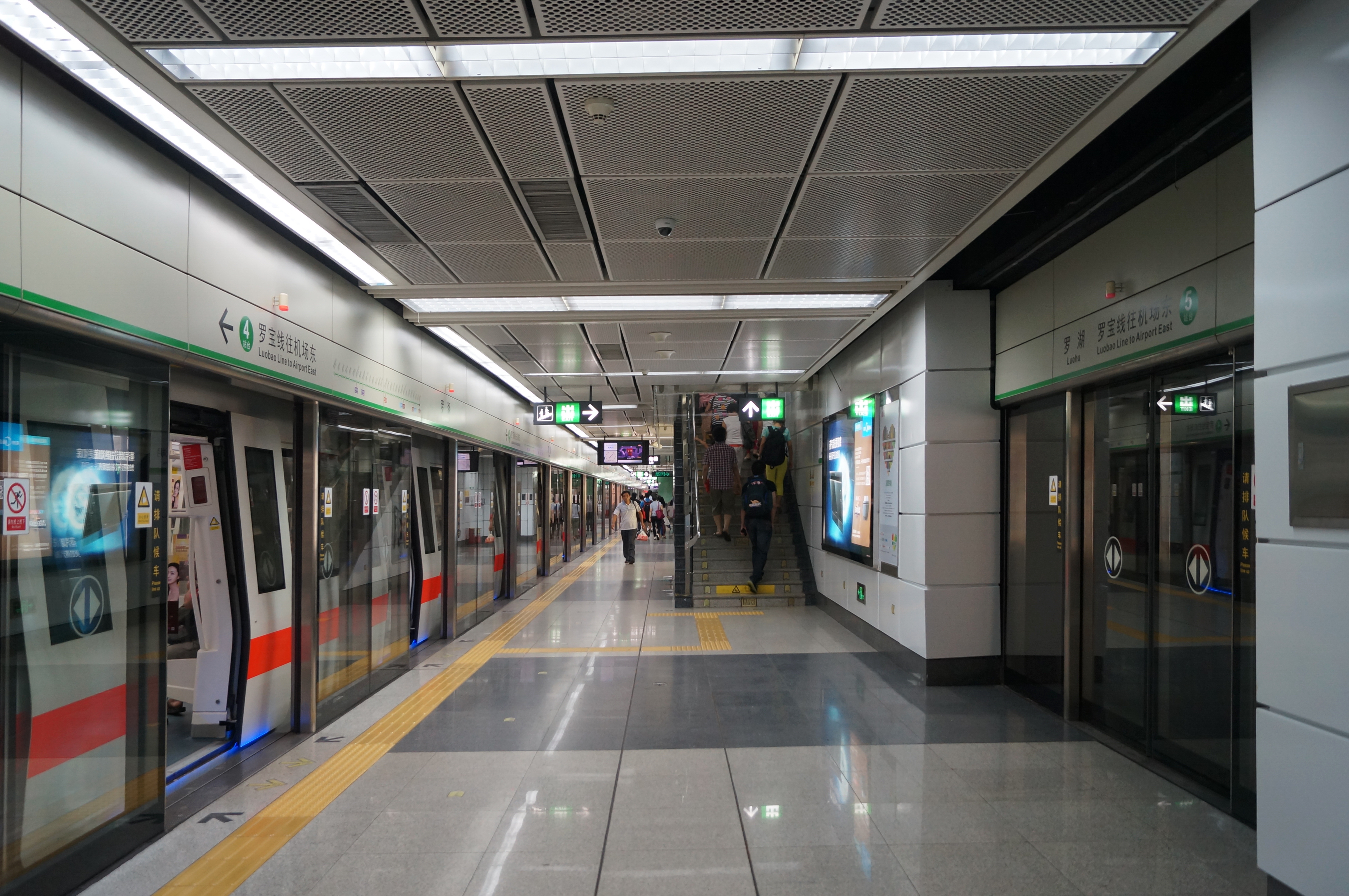 Luohu Station platform 4 & 5.